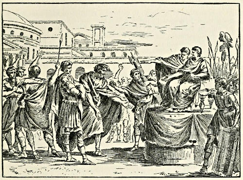 The Project Gutenberg EBook of The Historians' History of the World in Twenty-Five Volumes, Volume 5. Henry Smith Williams